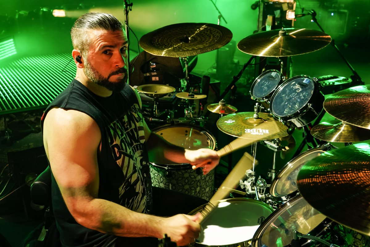 John Dolmayan playing the drums on stage.